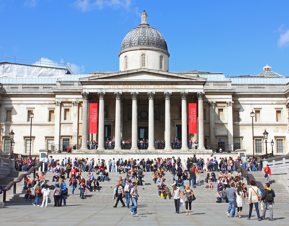 The National Gallery in Trafalgar Square.